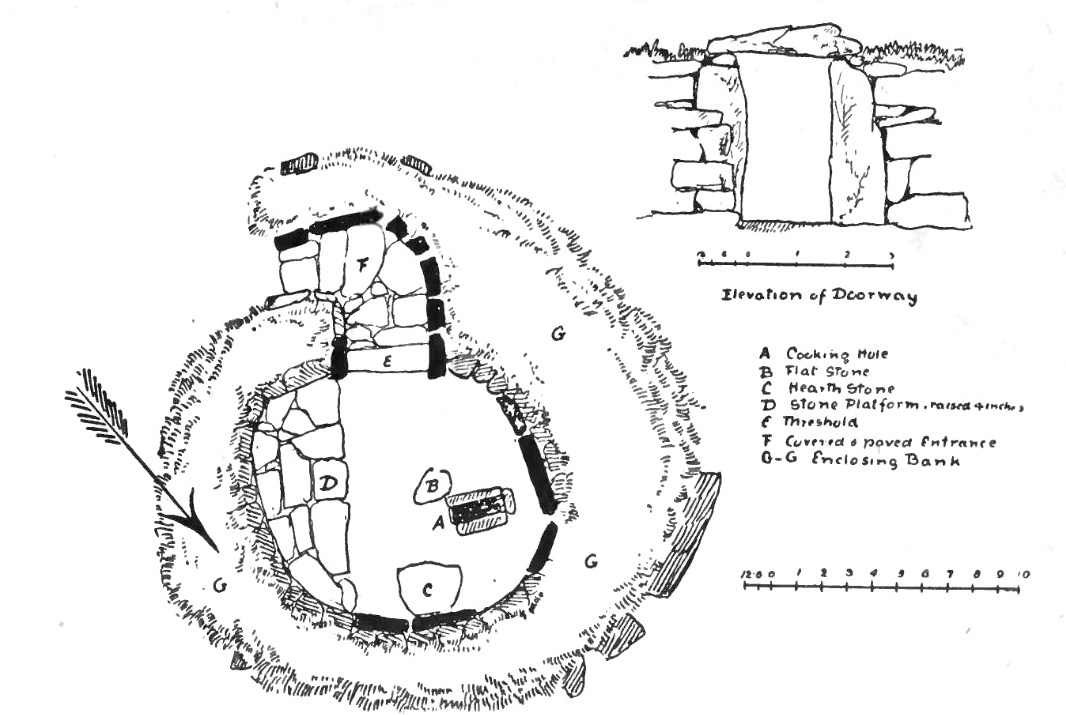 Image from scanned version of "A Book of Dartmoor" by Sabine Baring-Gould, published in 1907 and in the Public Domain. Image has been cropped and exposure adjusted with sepia tone removed.